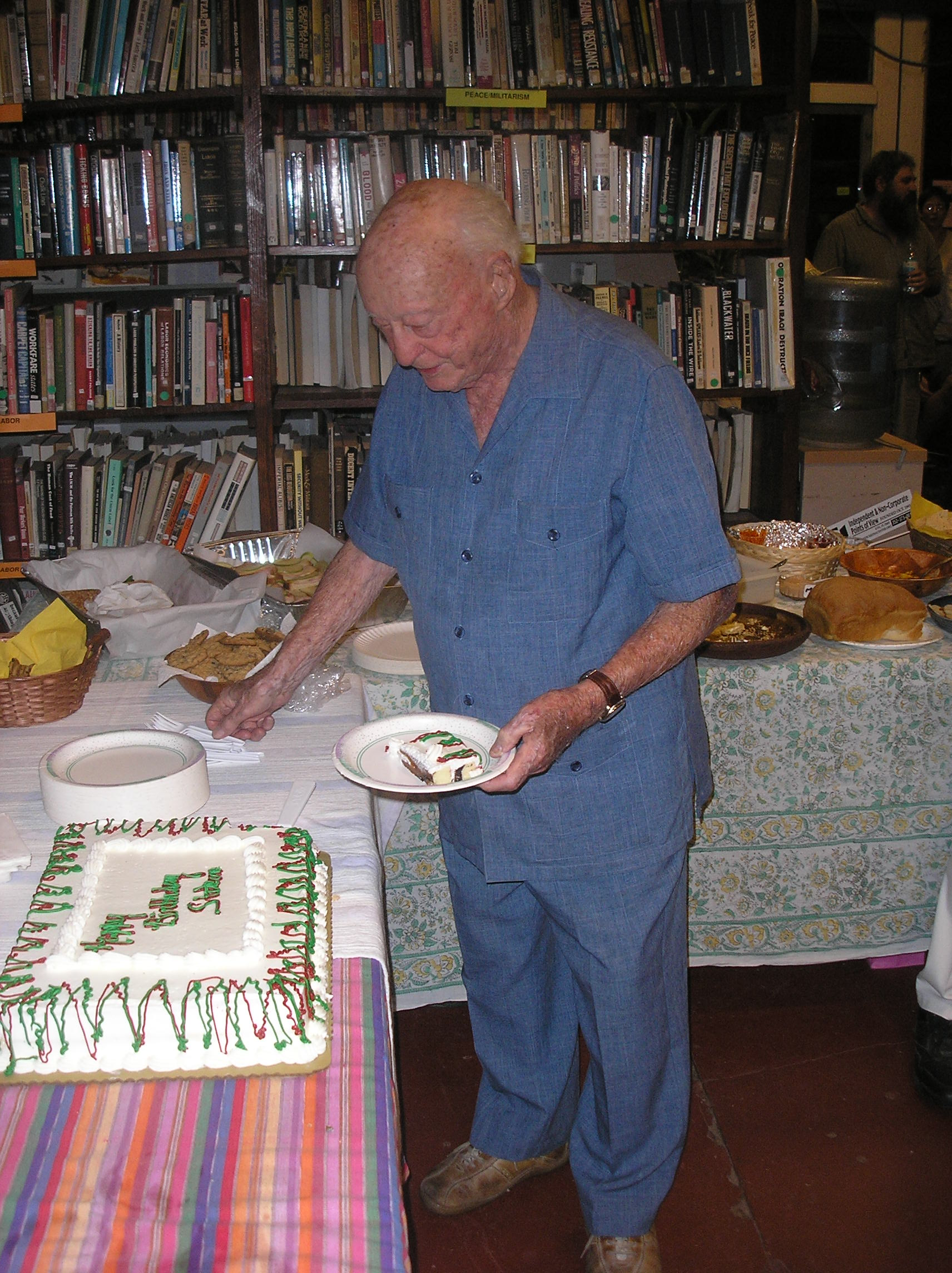 Stetson Kennedy cuts the cake for his 93rd birthday party (two days before the actual birthday) at the Civic media Center in Gainesville, Florida.